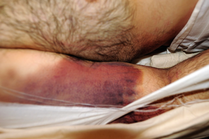 Mr Fakhrawi death is attributed to torture while in the custody of the NSA.